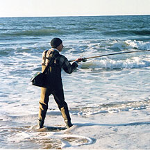 Author, Myself Brian Hamilton